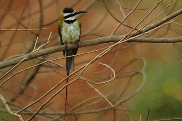 Uganda White-throated Bee-eater (Merops albicollis) Entebbe Jan 2006